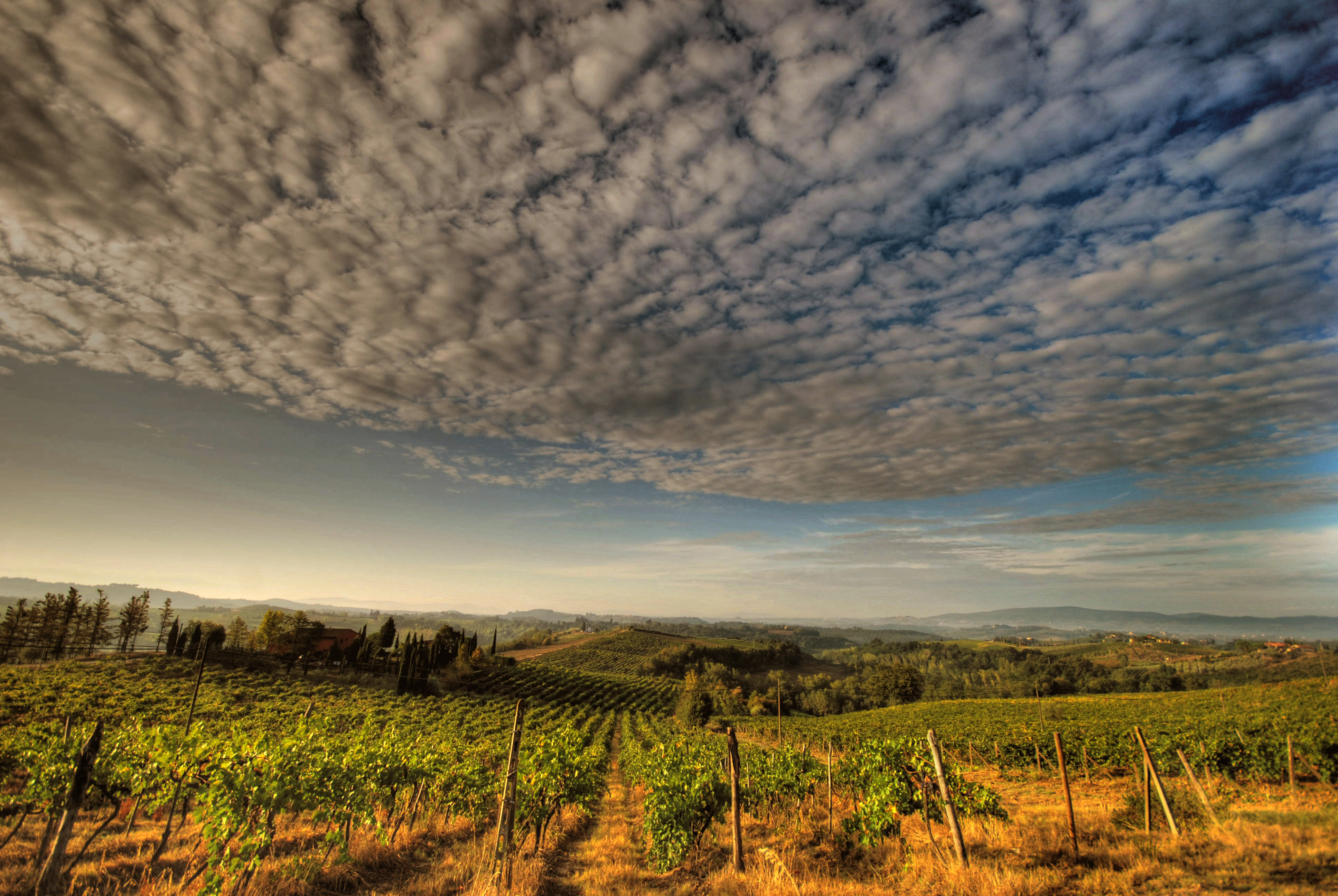 Grapevines in the Chianti wine zone of Tuscany in Central Italy